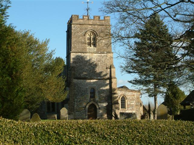 St. Johns Church, Mildenhall.